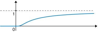 Illustration of an non-analytic smooth function